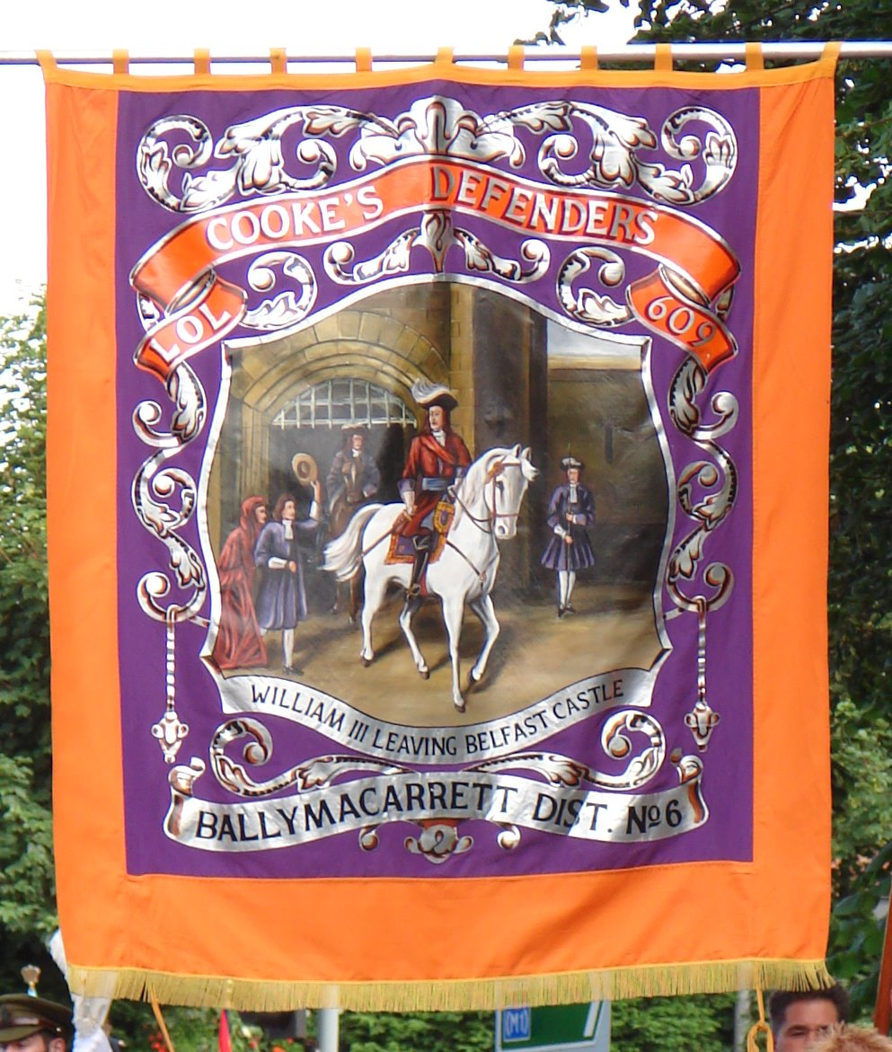 Copyright Douglas Jones. Licenced.